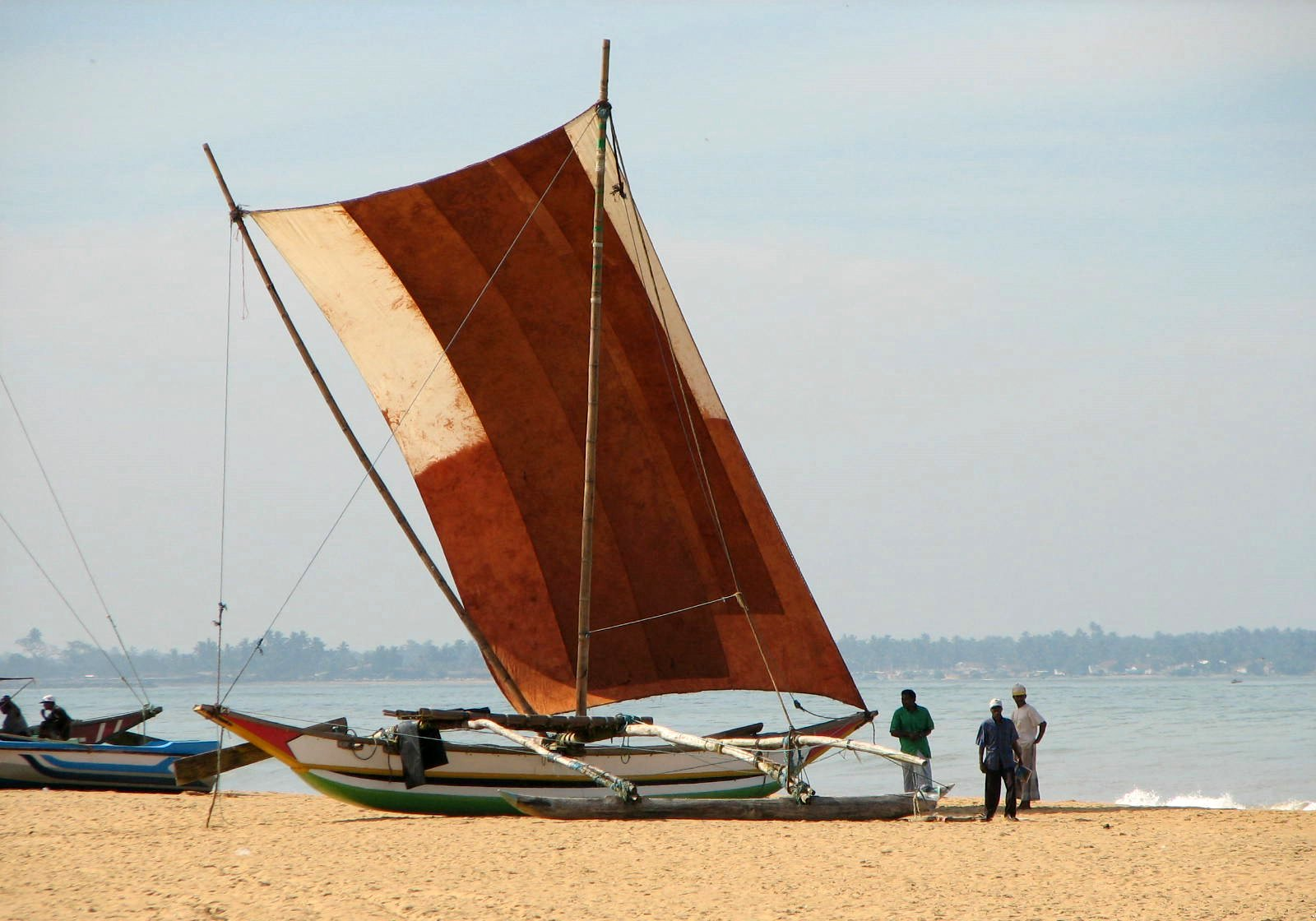 Fishing boat, Negombo, Sri Lanka